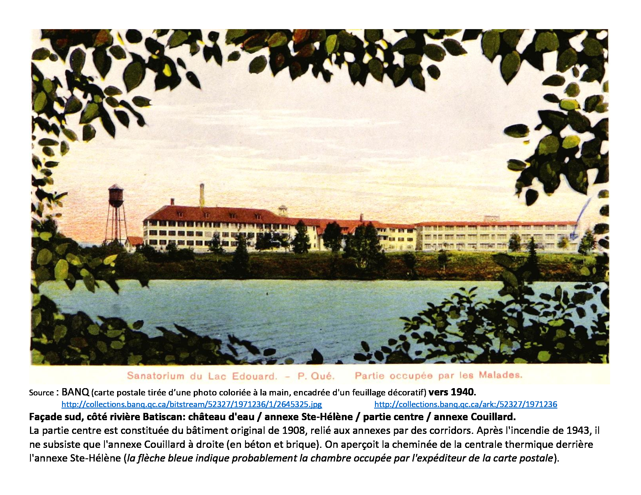 Postcard sold by the sanatorium of Lac-Édouard, owned by the government of Québec, closed in 1967.